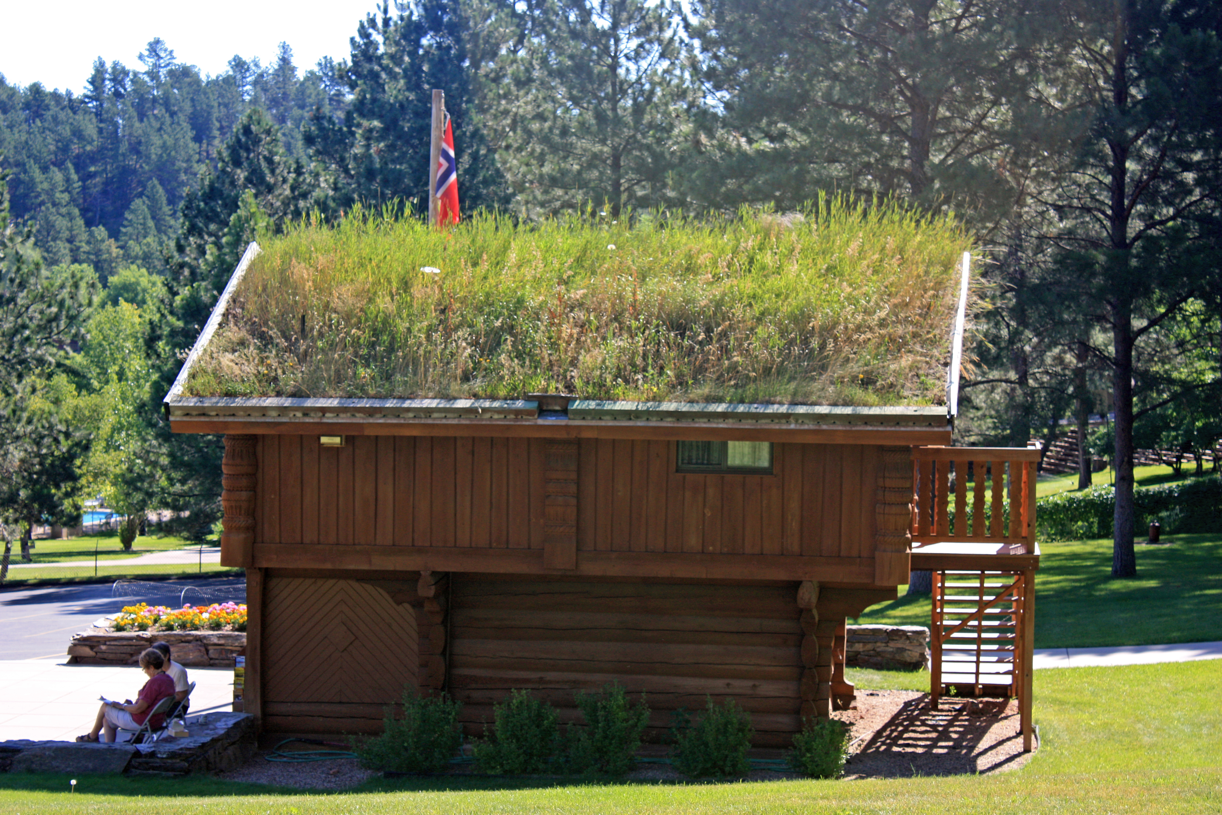 Stabbur, Gift shop for Chapel in the Hills in Rapid City, South Dakota